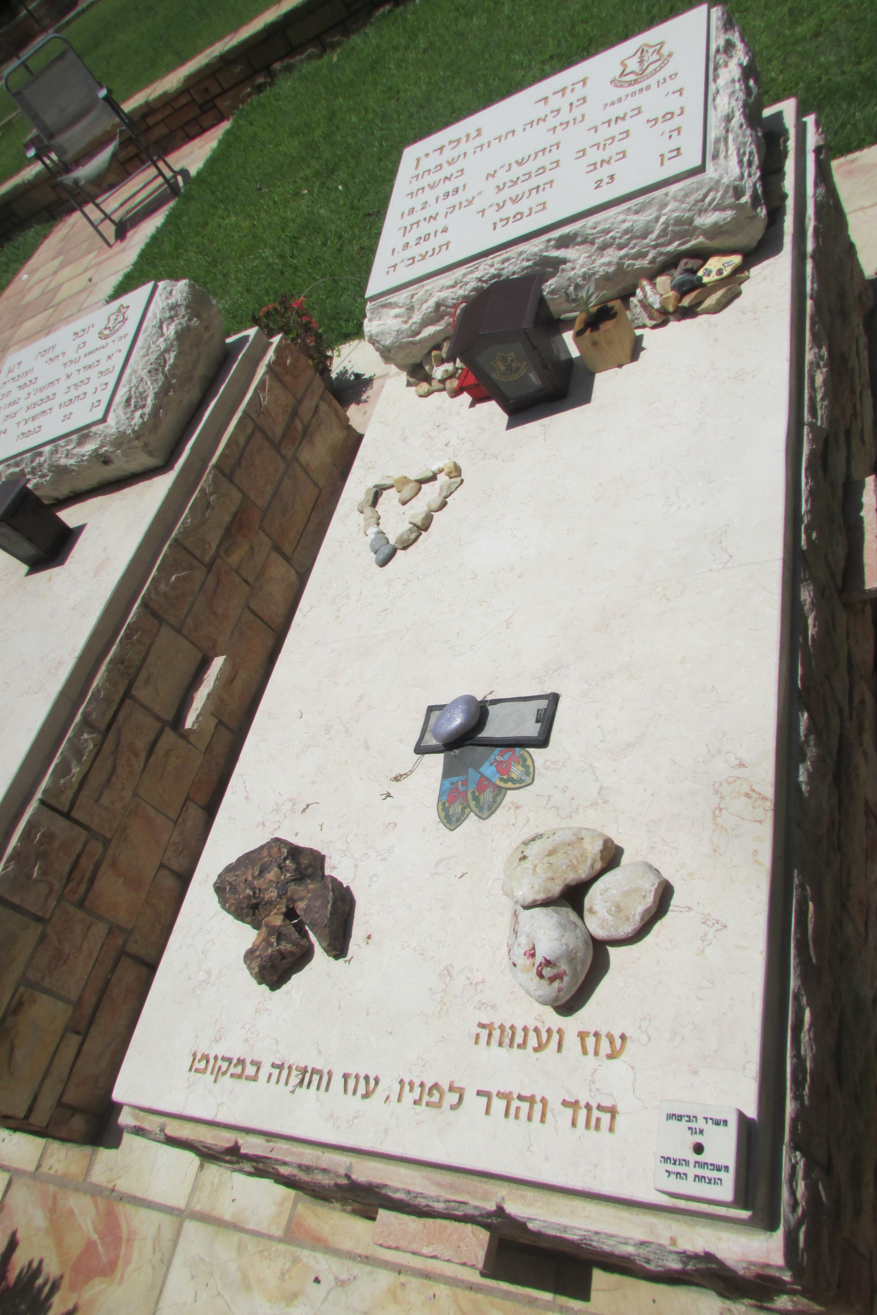 Grave of Hadar Goldin in Kfar Saba military cemetary